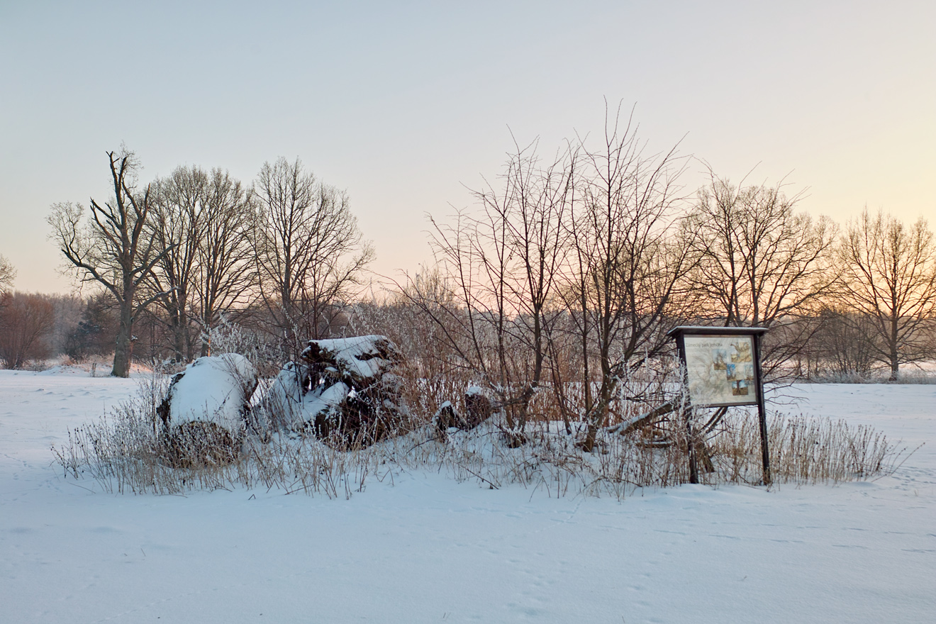 torso of memorable lime tree near Jemcina castle, Czech republic